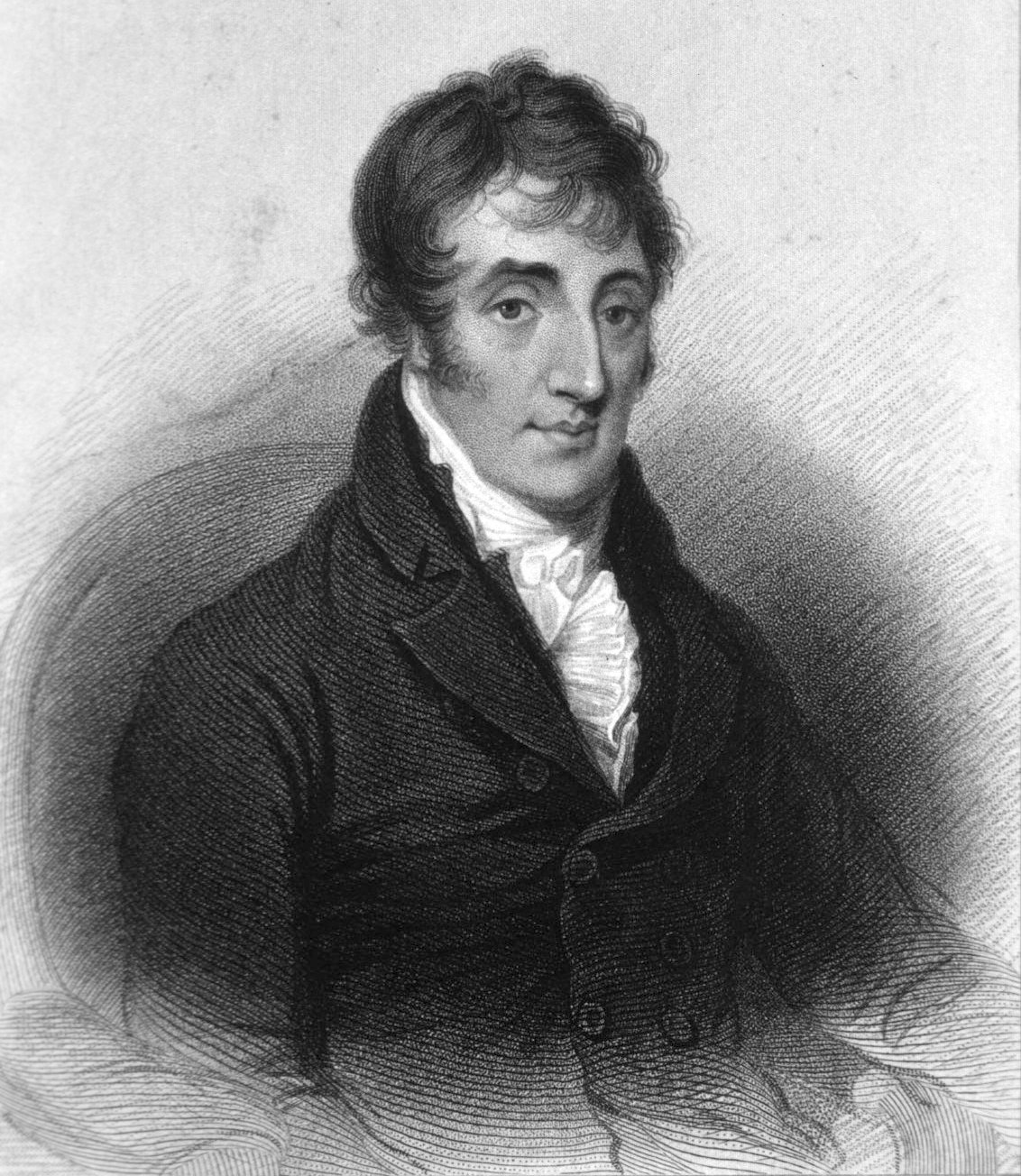 Reverend James Grahame, Scottish poet